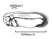 Les deux protéines XlHbox 1 et XlHbox 6 sont exprimés dans le système nerveux central et le mésoderme latéral. La protéine XlHbox 1 est exprimée sous la forme d'une bande étroite dans la région du tronc antérieur alors que la protéine XlHbox 6 est exprimée dans la région du tronc postérieur.